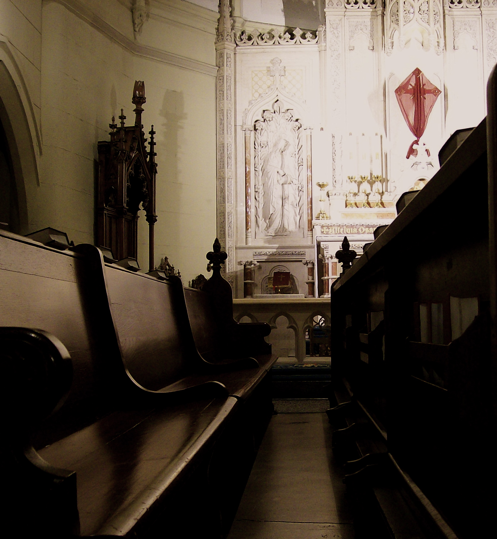 St. Mary's Episcopal Cathedral: the altar as seen from among the pews of the choir. The altar cross is veiled for Passiontide.